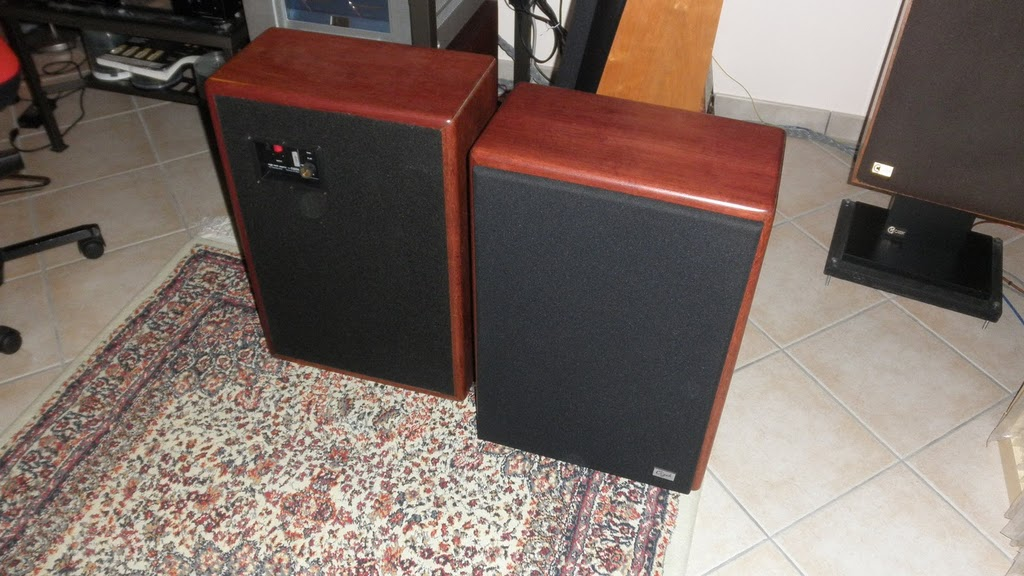 Picture of the Cizek AR1 speakers, one of the last speakers system by Roy Cizek in The late eighties and nineteens